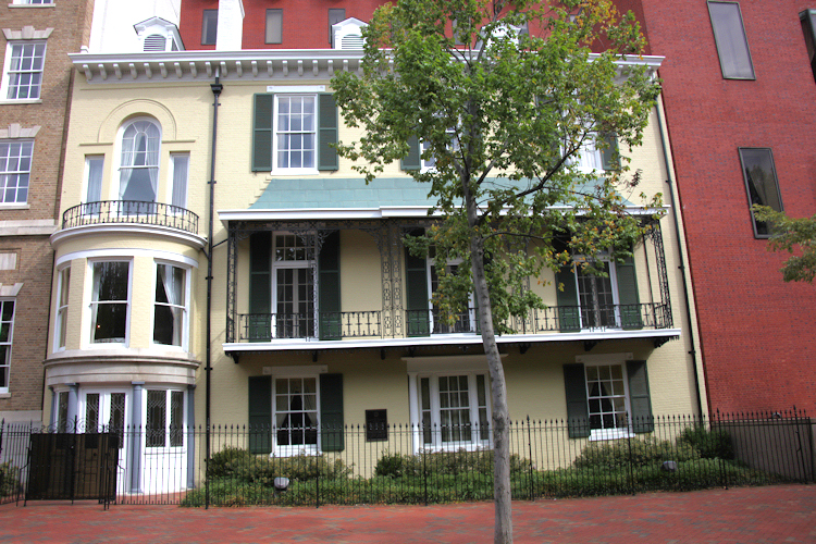 Front view of the Benjamin Ogle Tayloe House, located at 21 Madison Place NW, Washington, D.C. Photograph shows many examples of Federal architecture, including the oval portico over the front door (left), the oriel window on the second floor above the entrance, and the Palladian window above that on the third floor. The floor-to-ceiling windows on the second floor and the wrought-iron veranda on the second floor can also be seen.